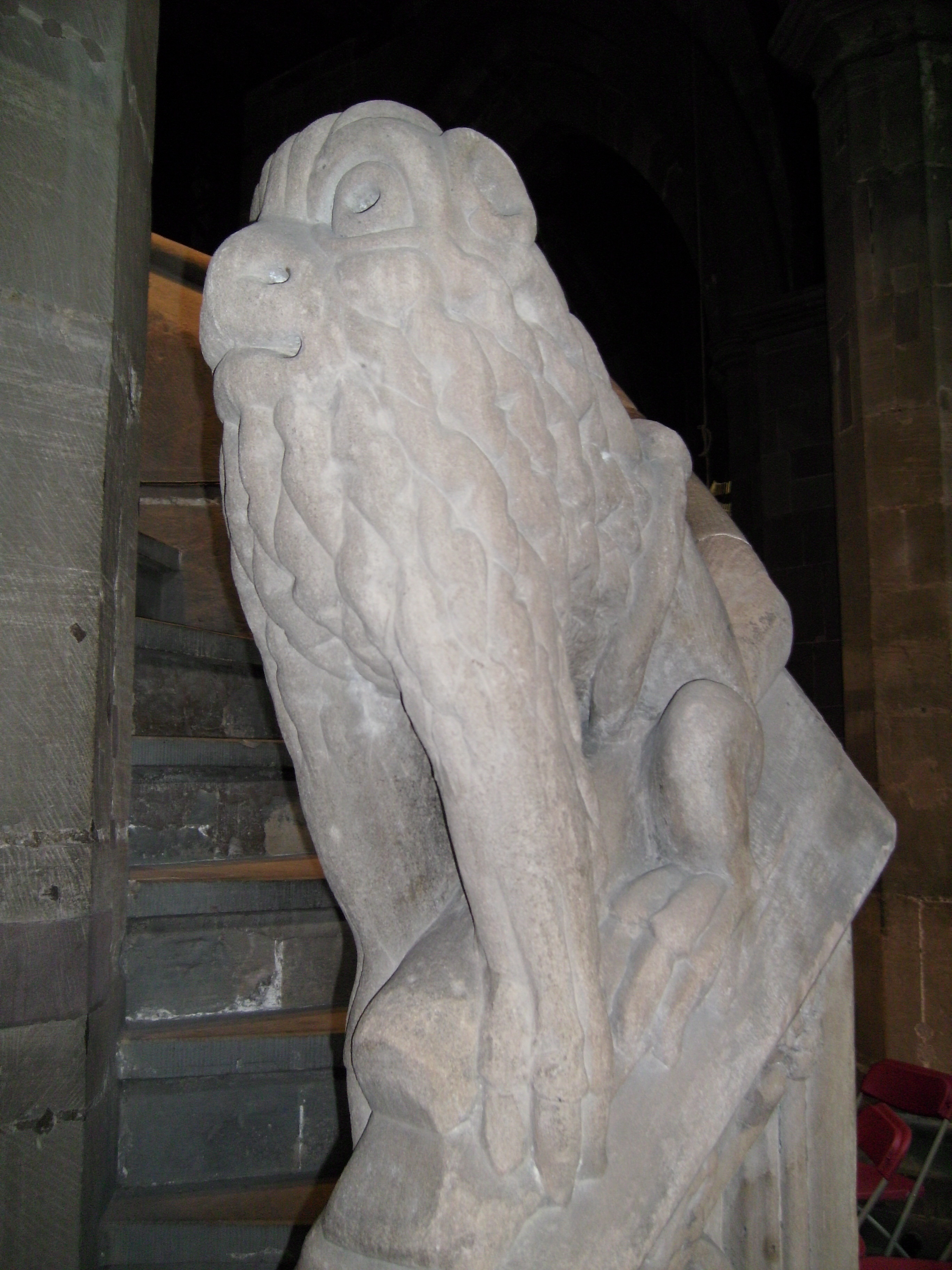 Sculpture of a lion on balustrade of medieval pulpit, probably mid-15th century. St. Peter's Collegiate church, Wolverhampton, West Midlands, England. Parish of Central Wolverhampton WV1 1TS.